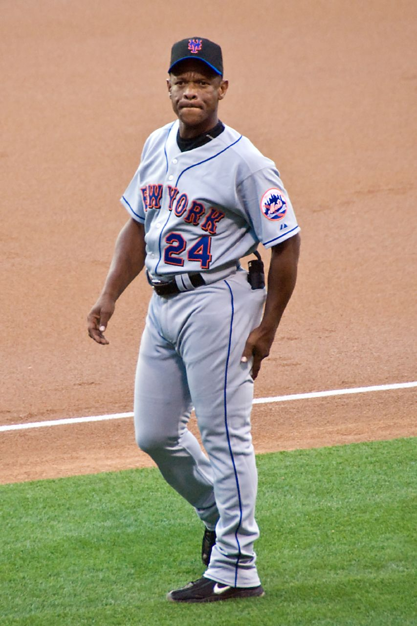 New York Mets first base coach Rickey Henderson on July 16, 2007